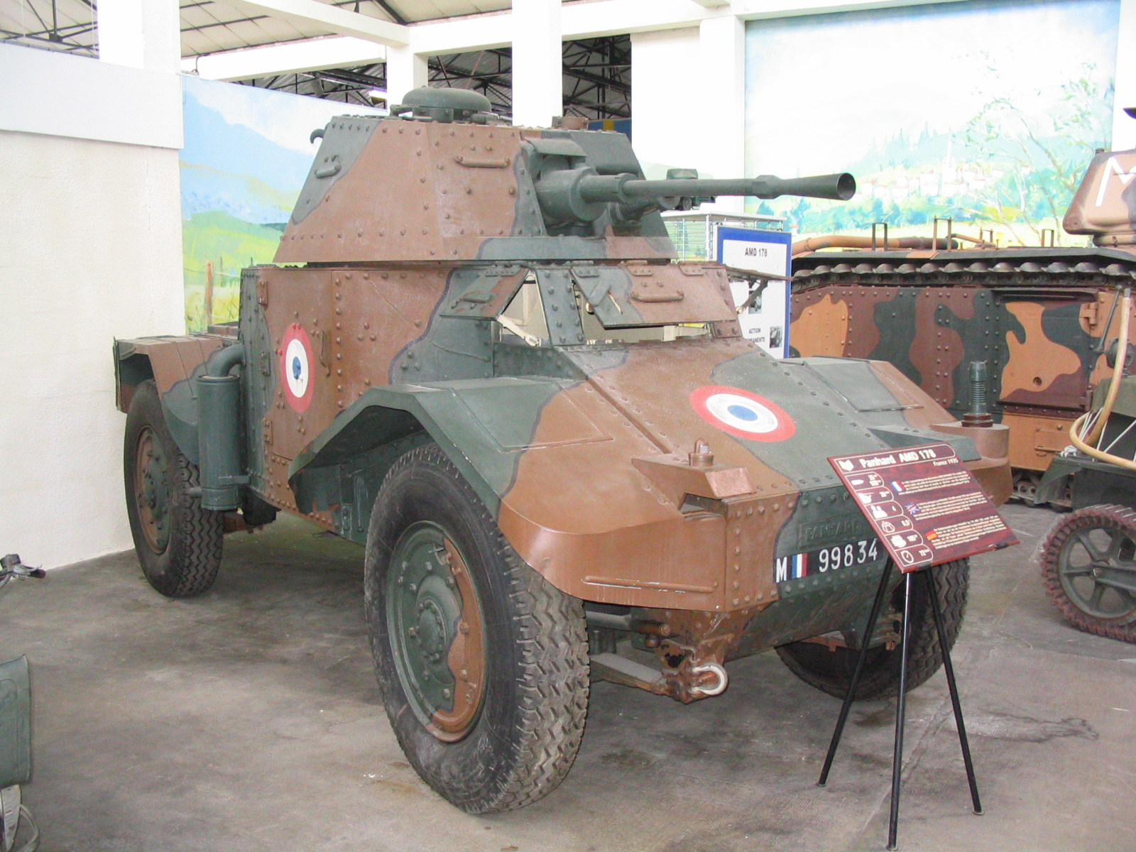 The AMD 35 Panhard 178 on display at Saumur armour museum pic by me